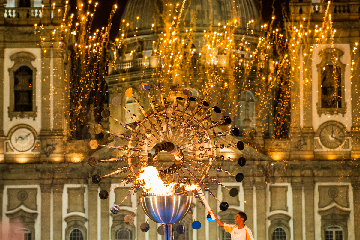 Opening ceremony at Olympic Boulevard